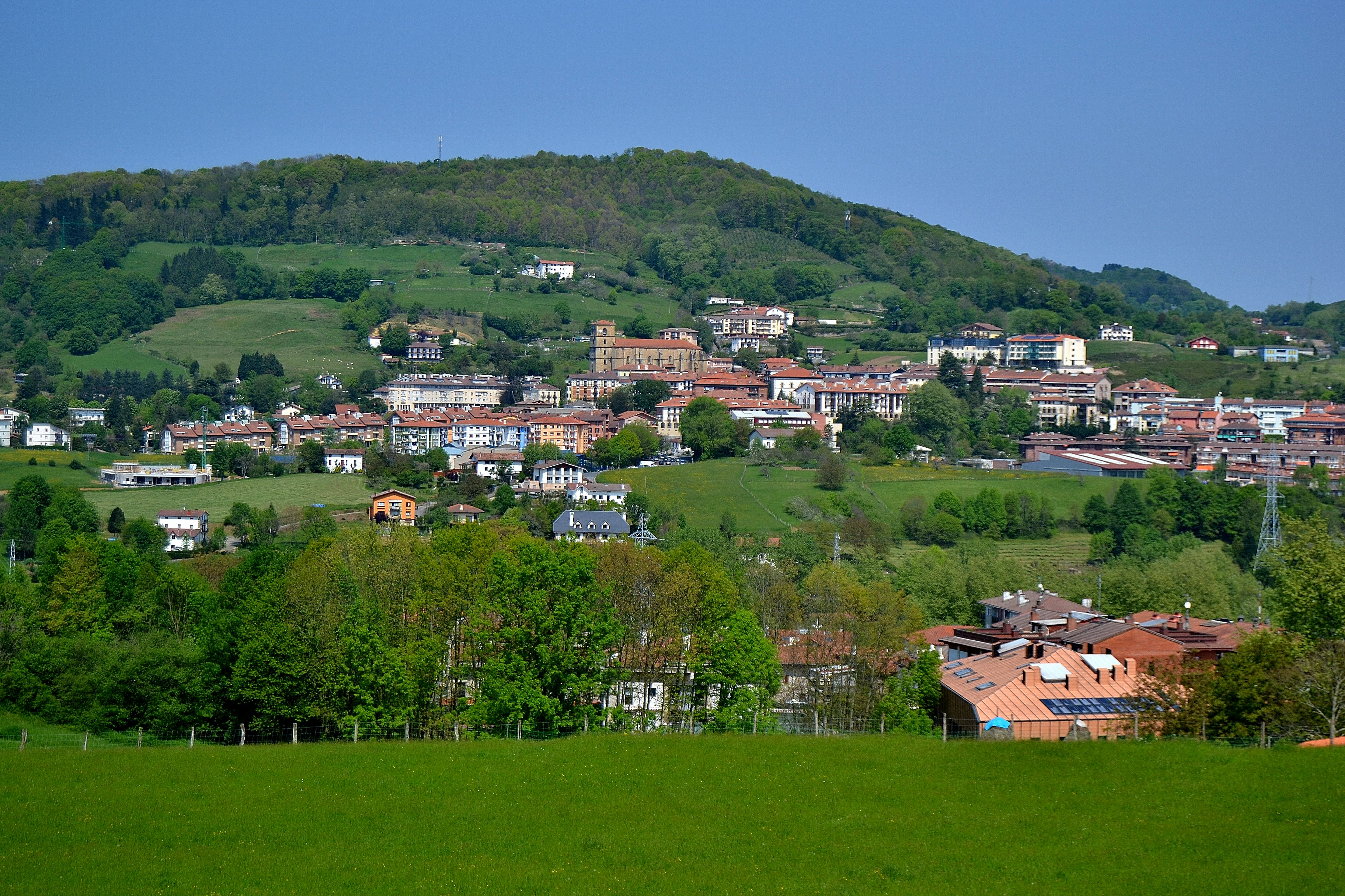 Oiartzun. Gipuzkoa, Basque Country.